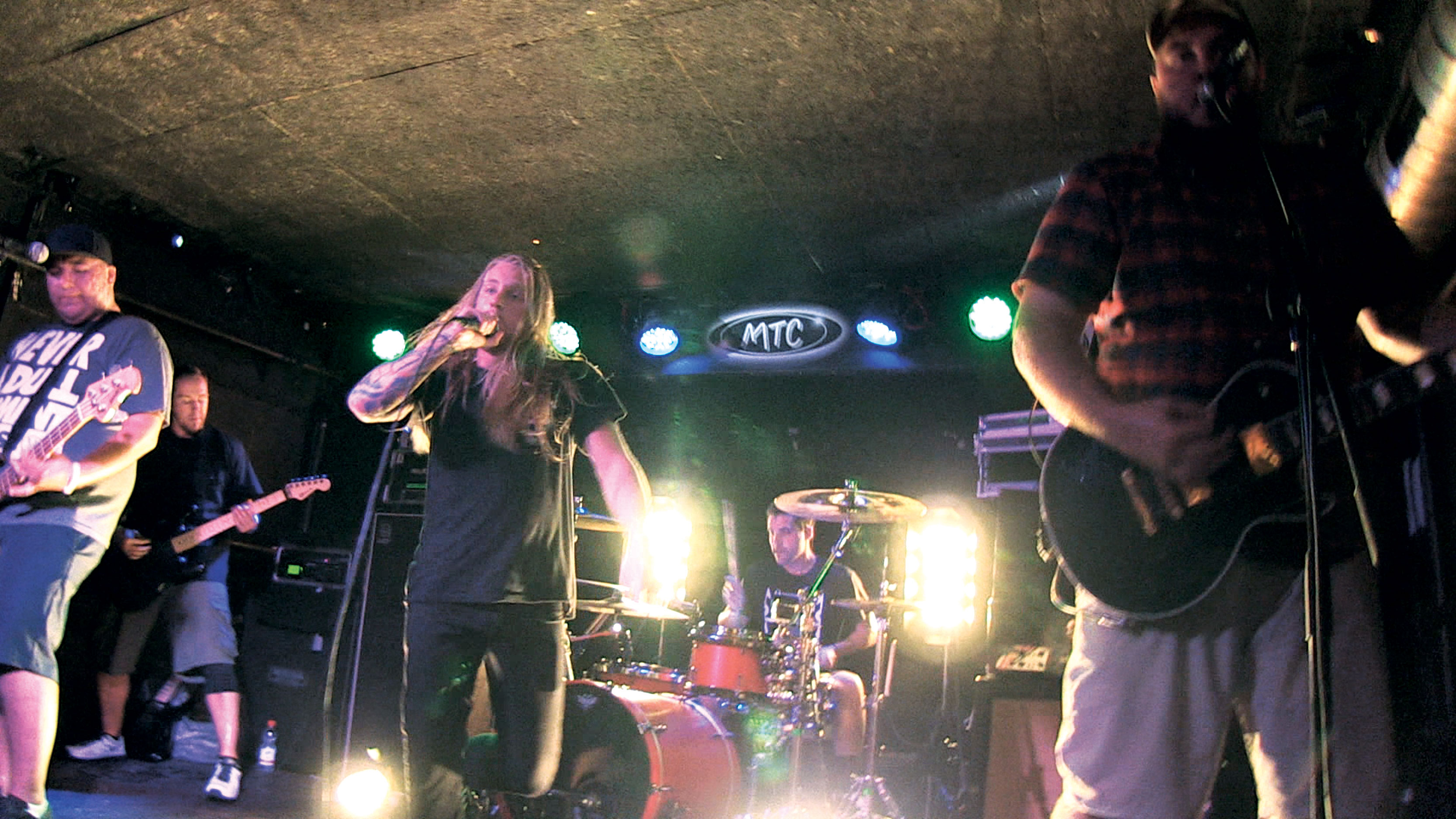 Close Your Eyes playing live Sep 24 with new singer